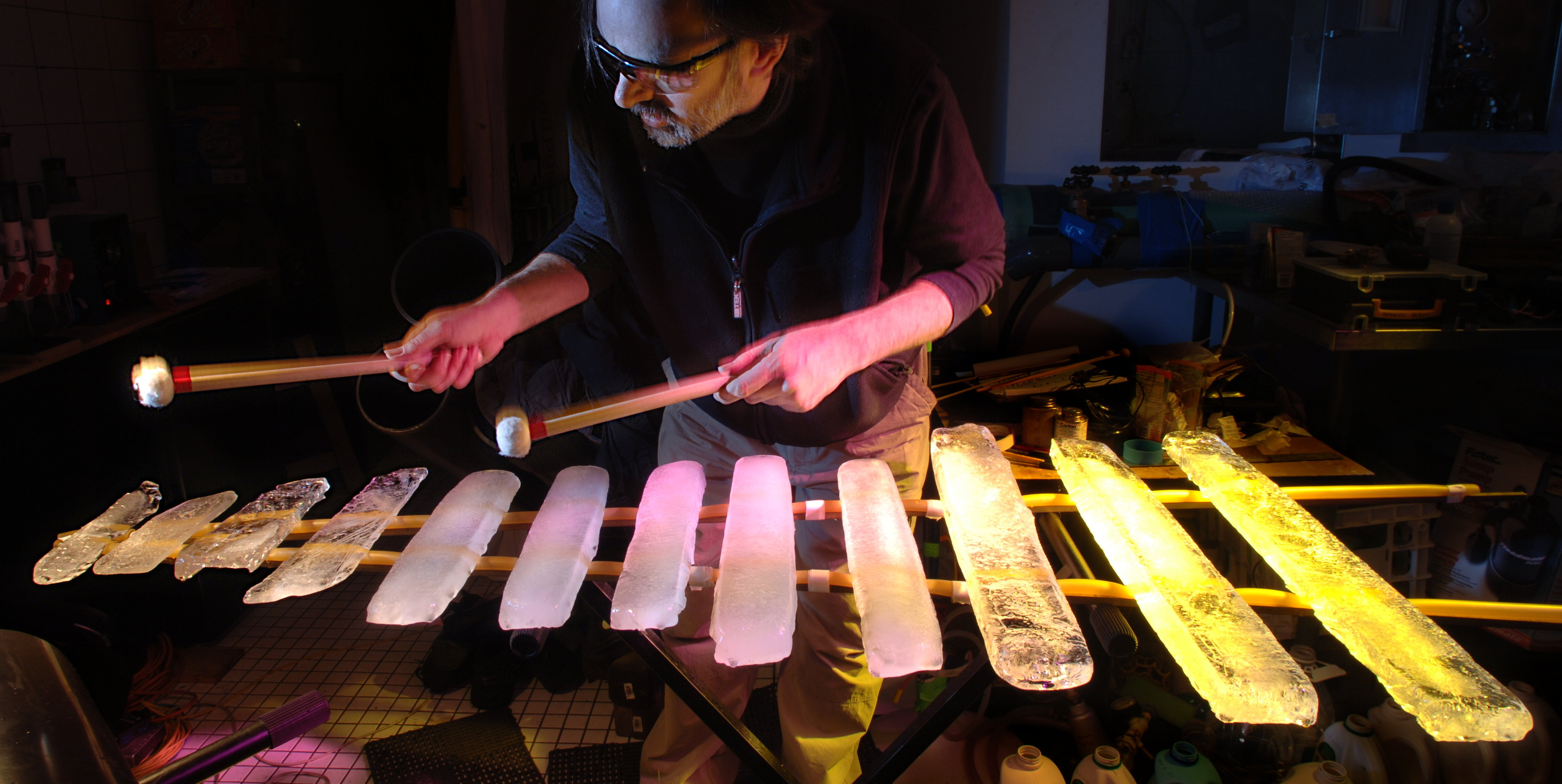 Here is a self-portrait I did before a pagophone performance. The pagophone is a musical instrument I made from ice bars to be struck with mallets